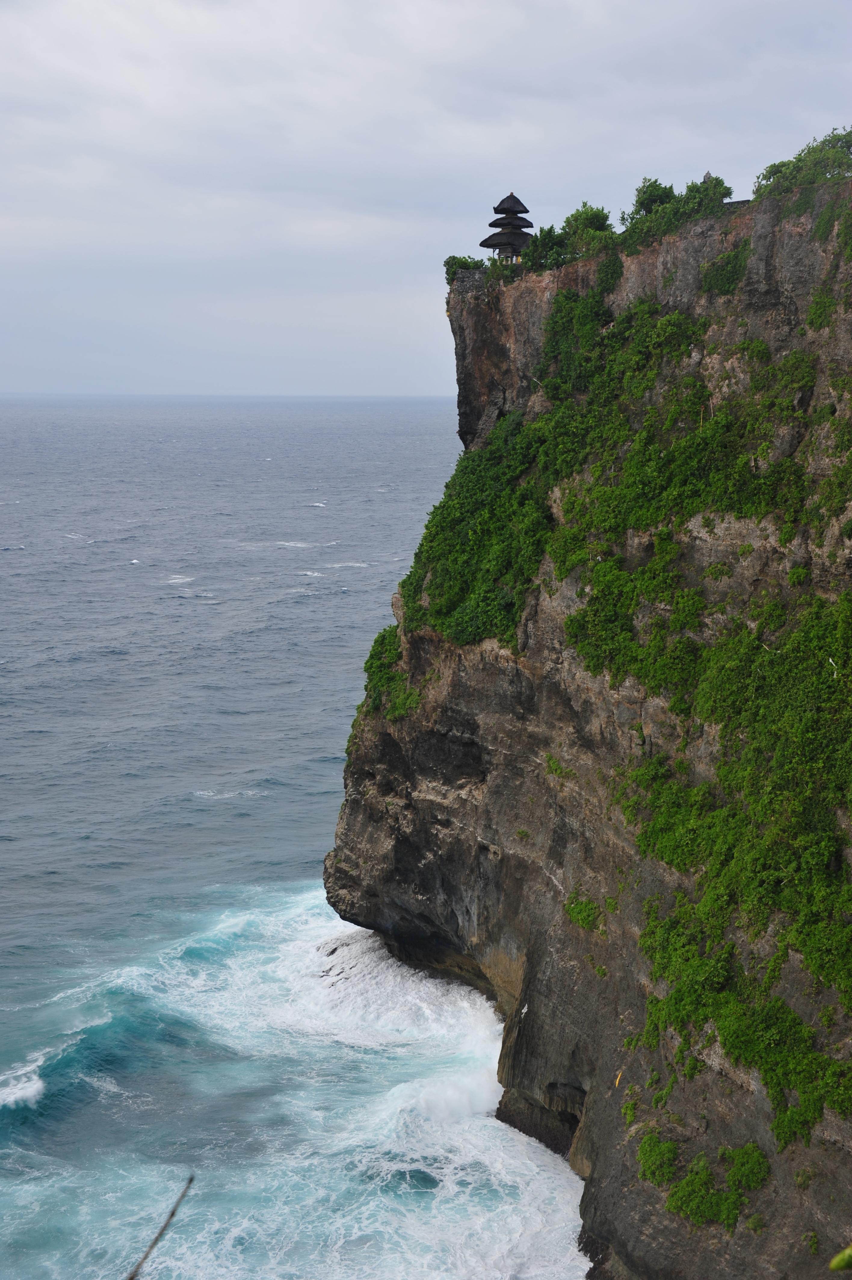 Uluwatu Pura Lahur Bali 2011